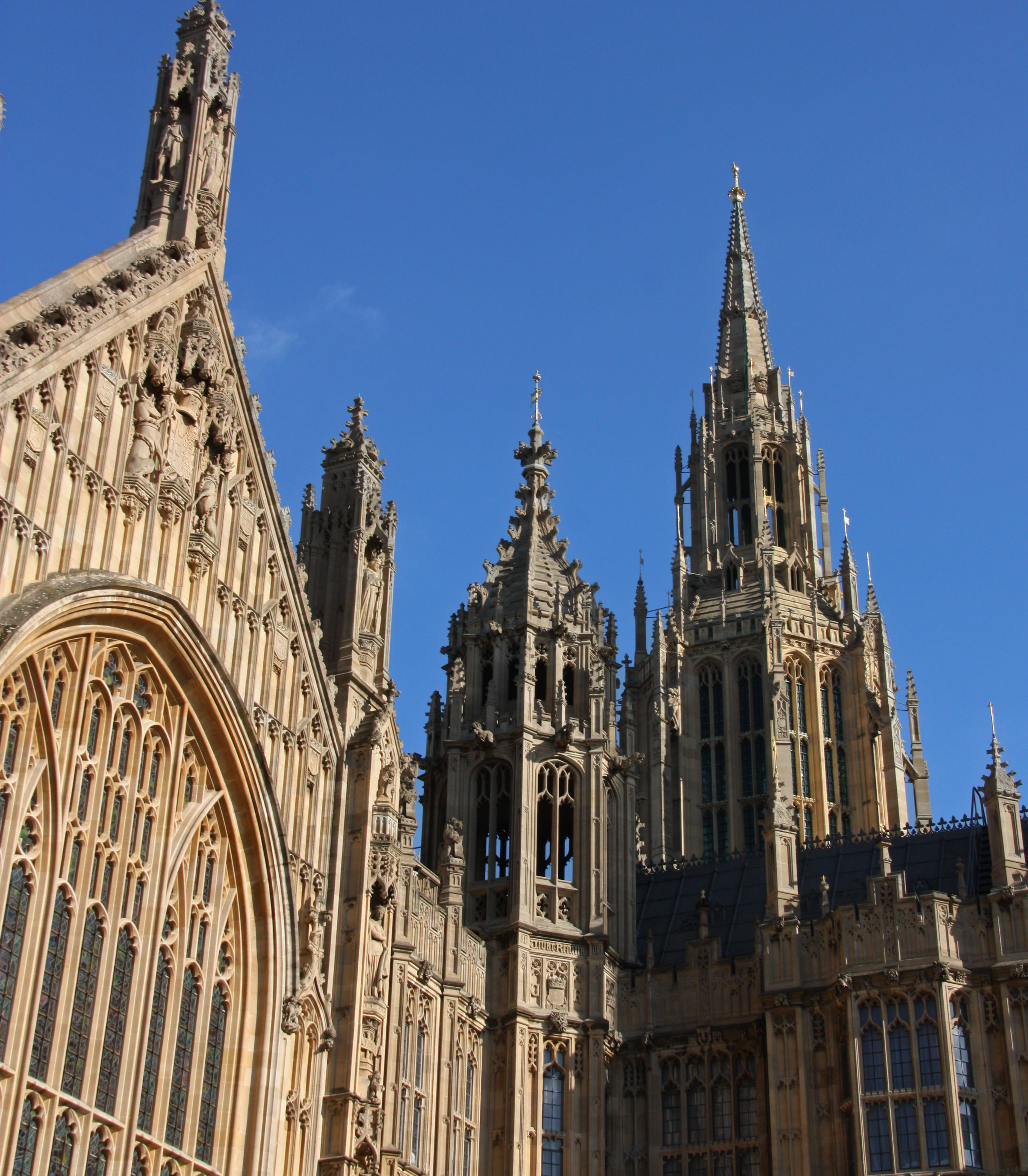 View from Old Palace Yard of the Central Tower (right) and part of the south front of Westminster Hall, Palace of Westminster, London